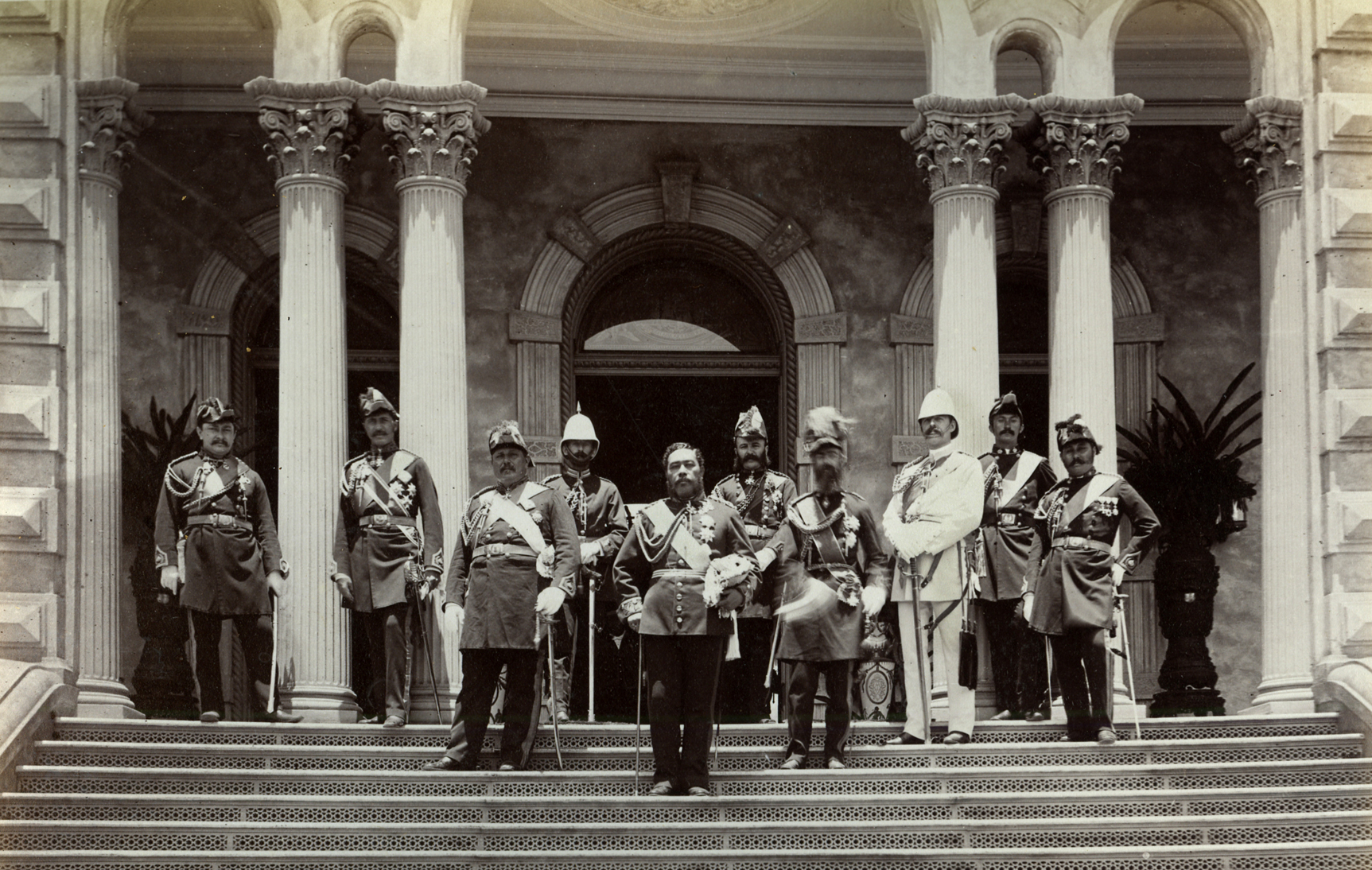 King Kalākaua and staff on ʻIolani Palace steps. Left to Right: James H. Boyd, Col. Curtis P. Iaukea, Chas. H. Judd, Edward W. Purvis, King Kalākaua, George W. MacFarlane, Governor John Owen Dominis, A. B. Hayley, John D. Holt and Antone Rosa.